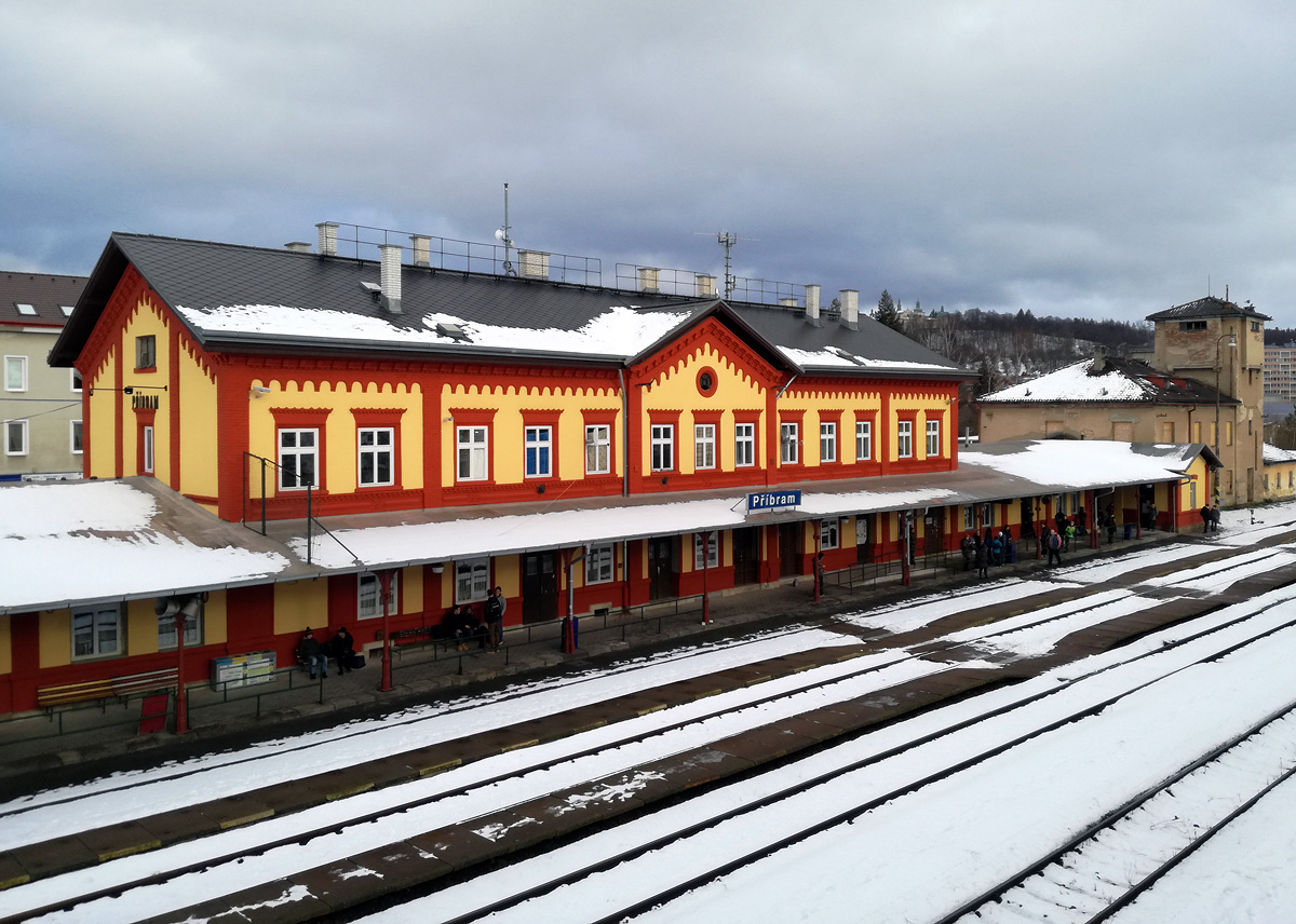 Příbram railway station